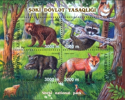 Stamp of Azerbaijan